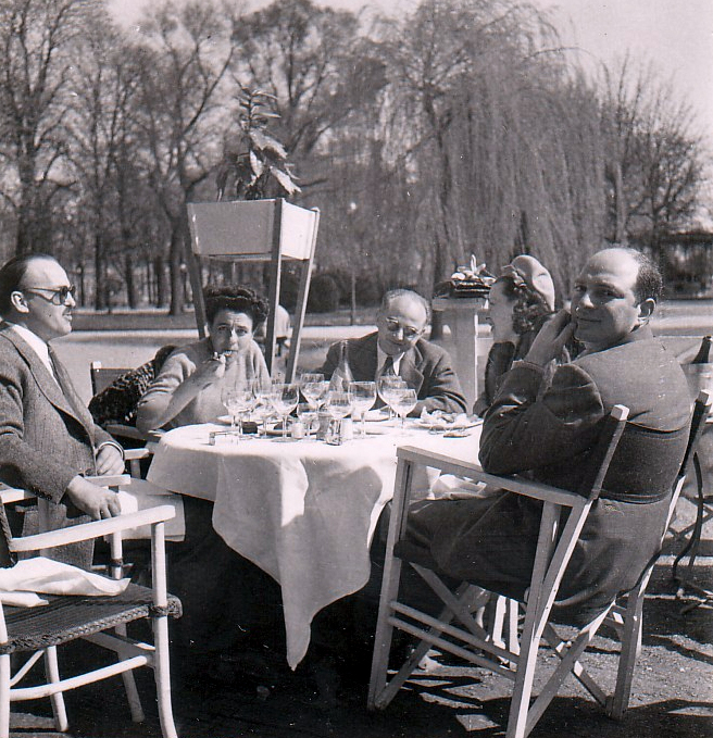 Family photo taken by a friend of Will Lang Jr.